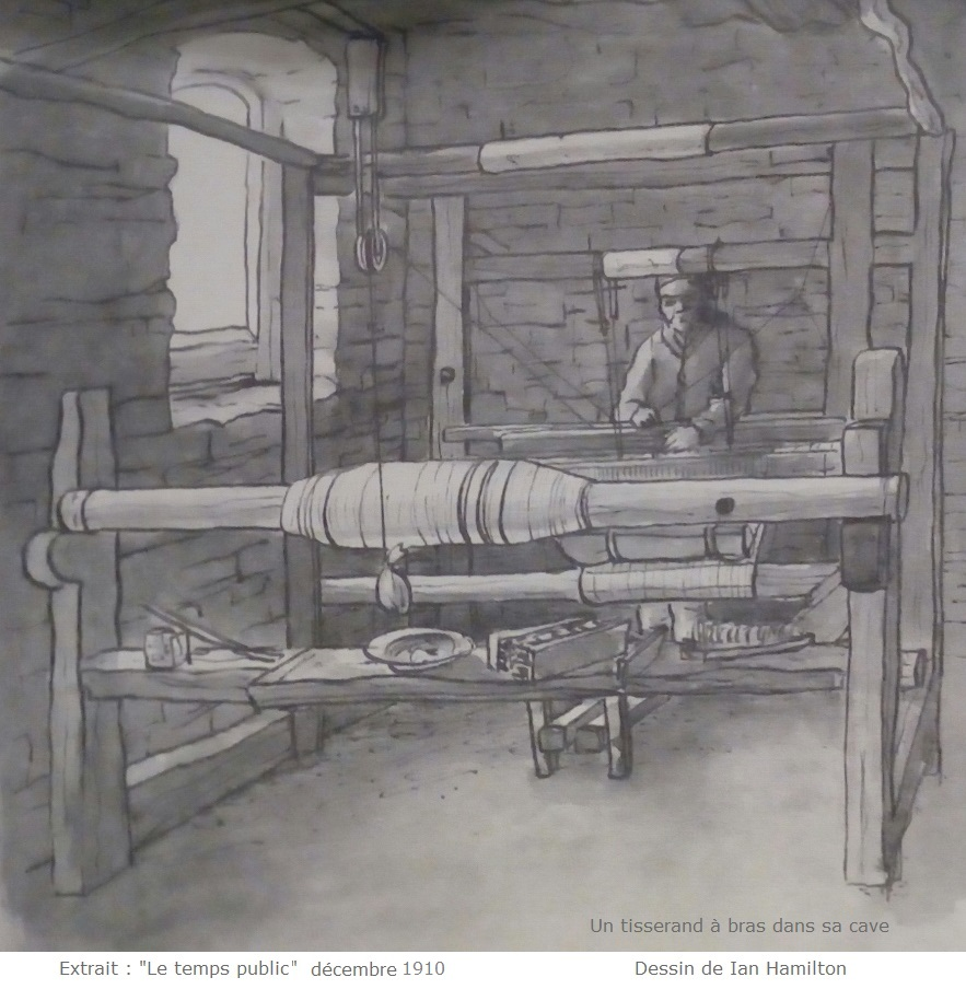 Cellar loom